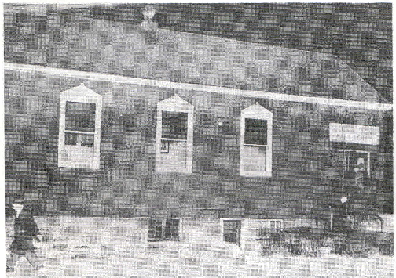 Photo of Mimico's former Town Hall (now demolished) on Church St (Royal York Rd) across from Drummond Ave. Formerly Mimico Wesley Methodist Church